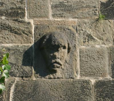 Relief of Bradáč (Bearded Man) in waterfront wall near eastern end of Charles Bridge in Prague, Czech Republic. This relief served for centuries as sign of flood. By the time when the water level achieved the beard of this relief, an evacuation of Old Town started.